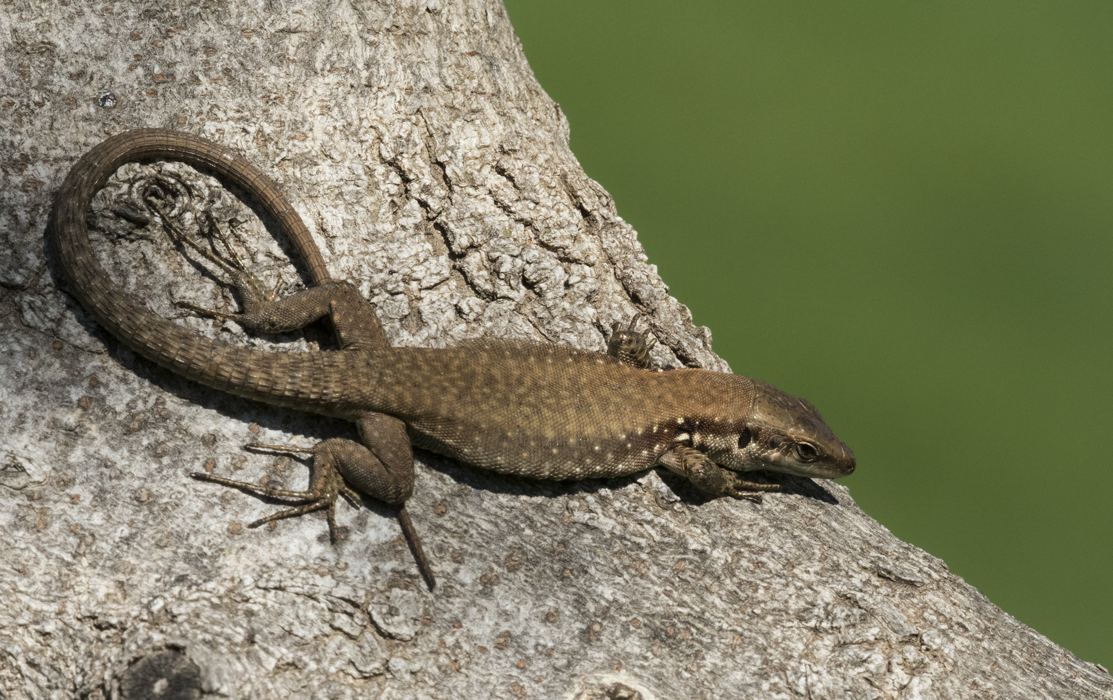 A juvenile Hatay Lizard (syn. Syrian Lizard) (Phoenicolacerta laevis).Dilber Park, Seyhan - Adana, Turkey.